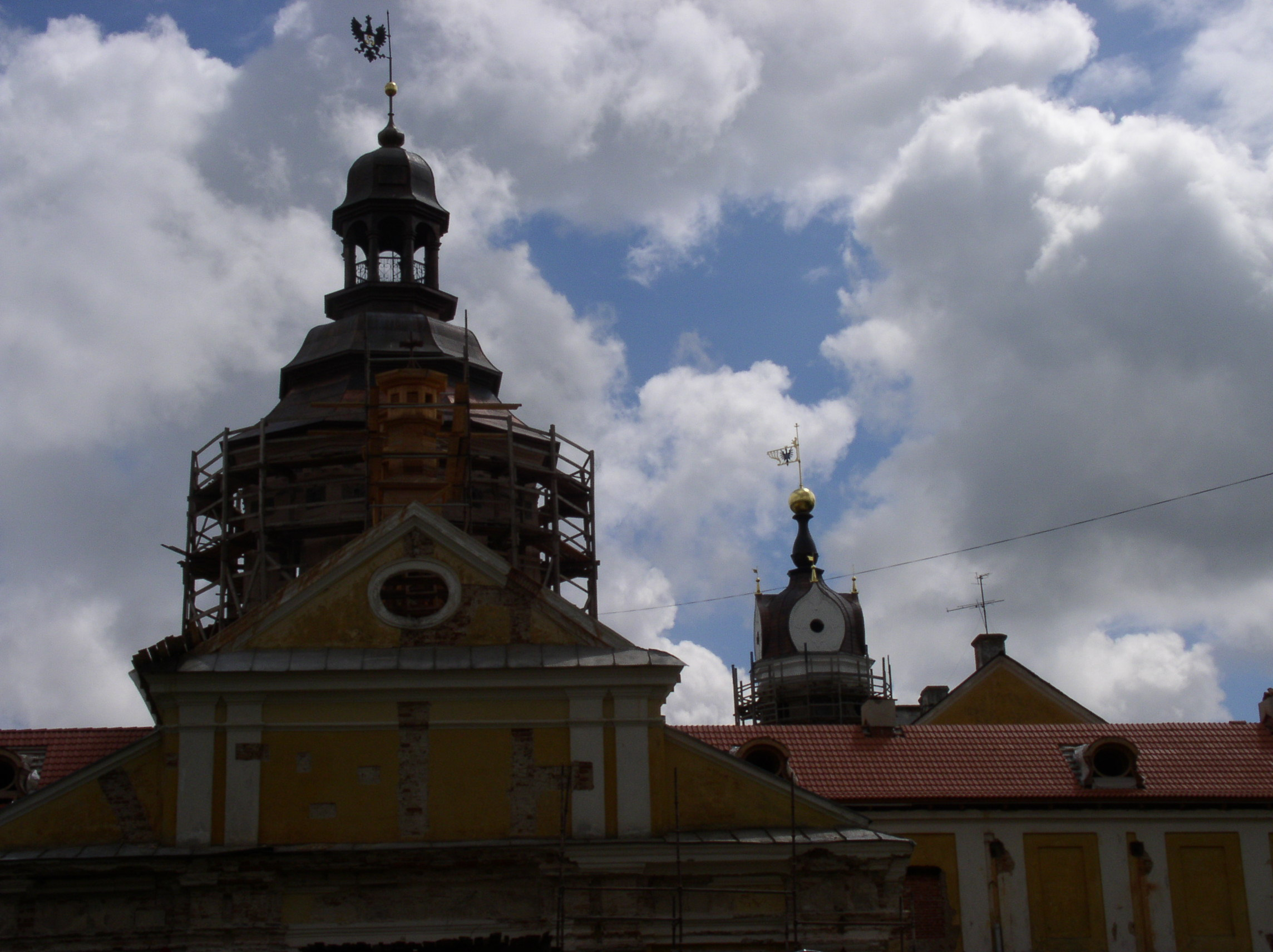 Radziwill family castle, Niasvizh, Belarus.